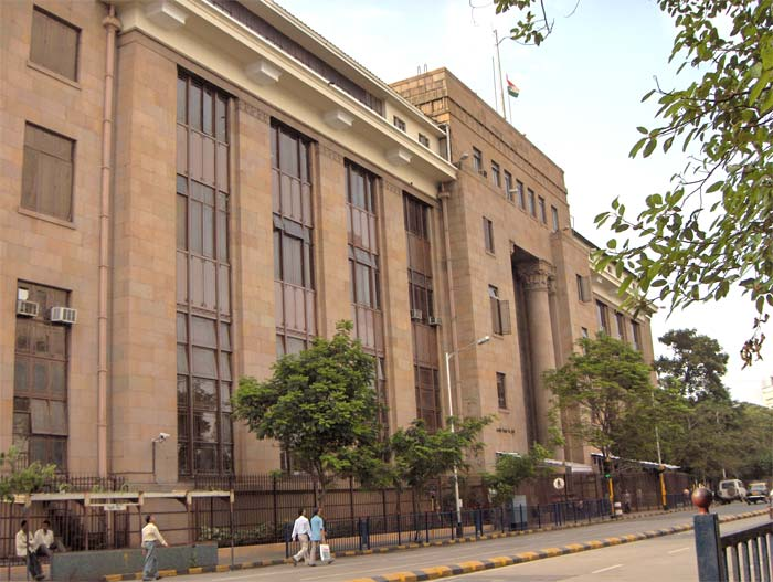 The Reserve Bank of India in Mumbai, India. Picture taken by me, Nichalp on Sun, Aug 7, 2005